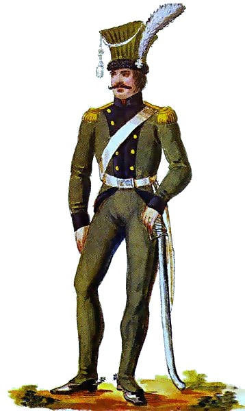 3rd Regiment of Frontal Guard of Field Bulawa of the Crown in 1792